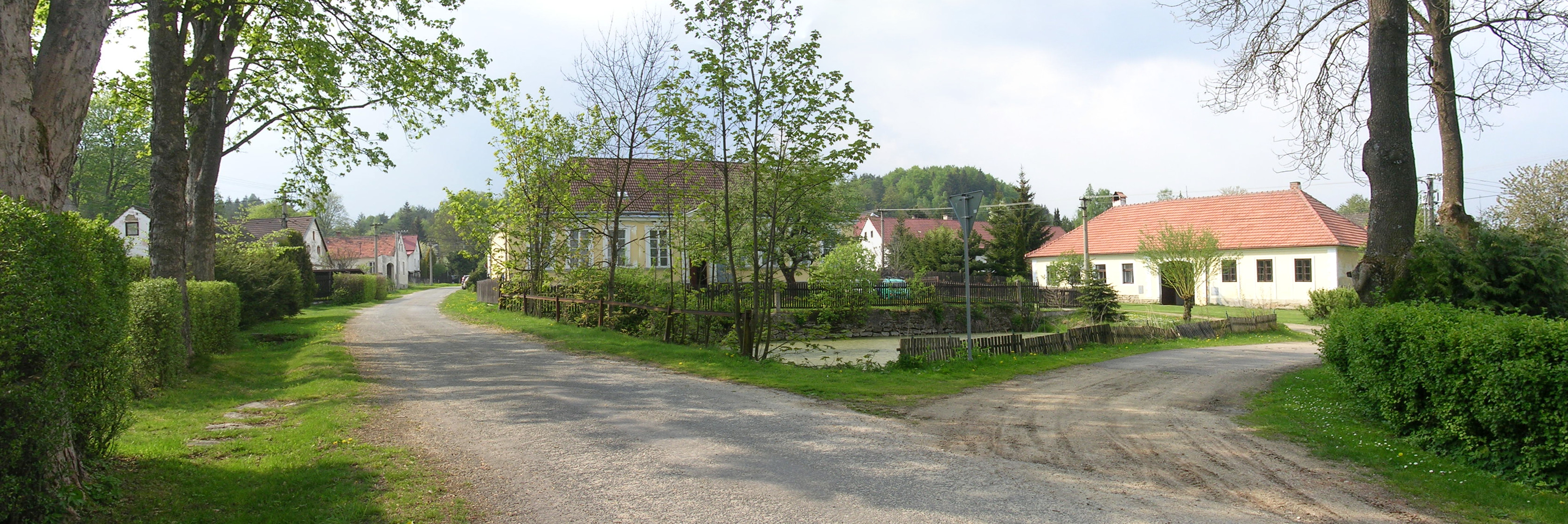 Český Rudolec-Stoječín, South Bohemian Region, the Czech Republic.